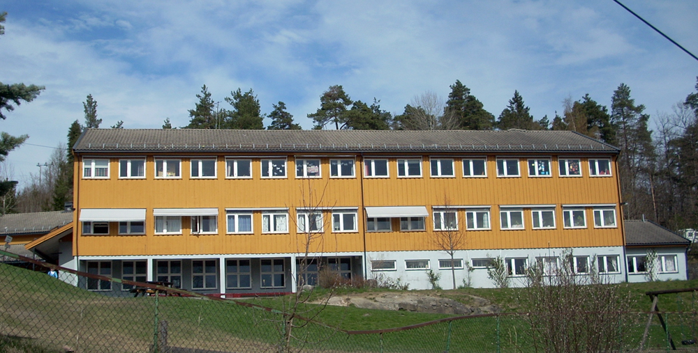 Nesheim childrens school in Arendal, Norway